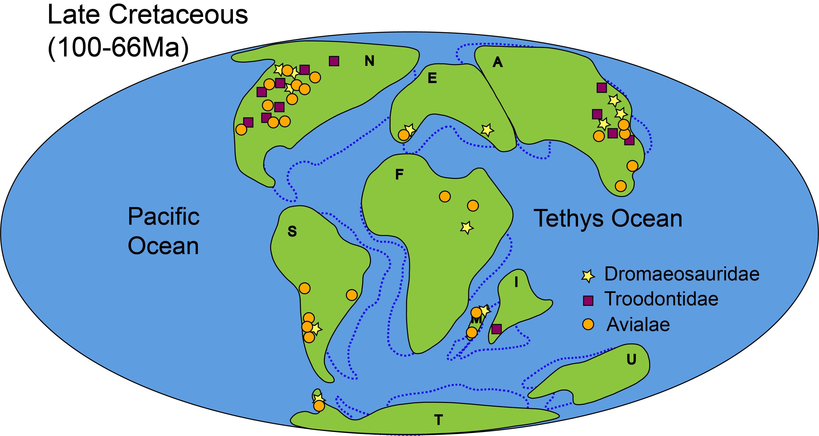 A map showing the distribution of paraves in Late Cretaceous with the respective paleogeographic setting.